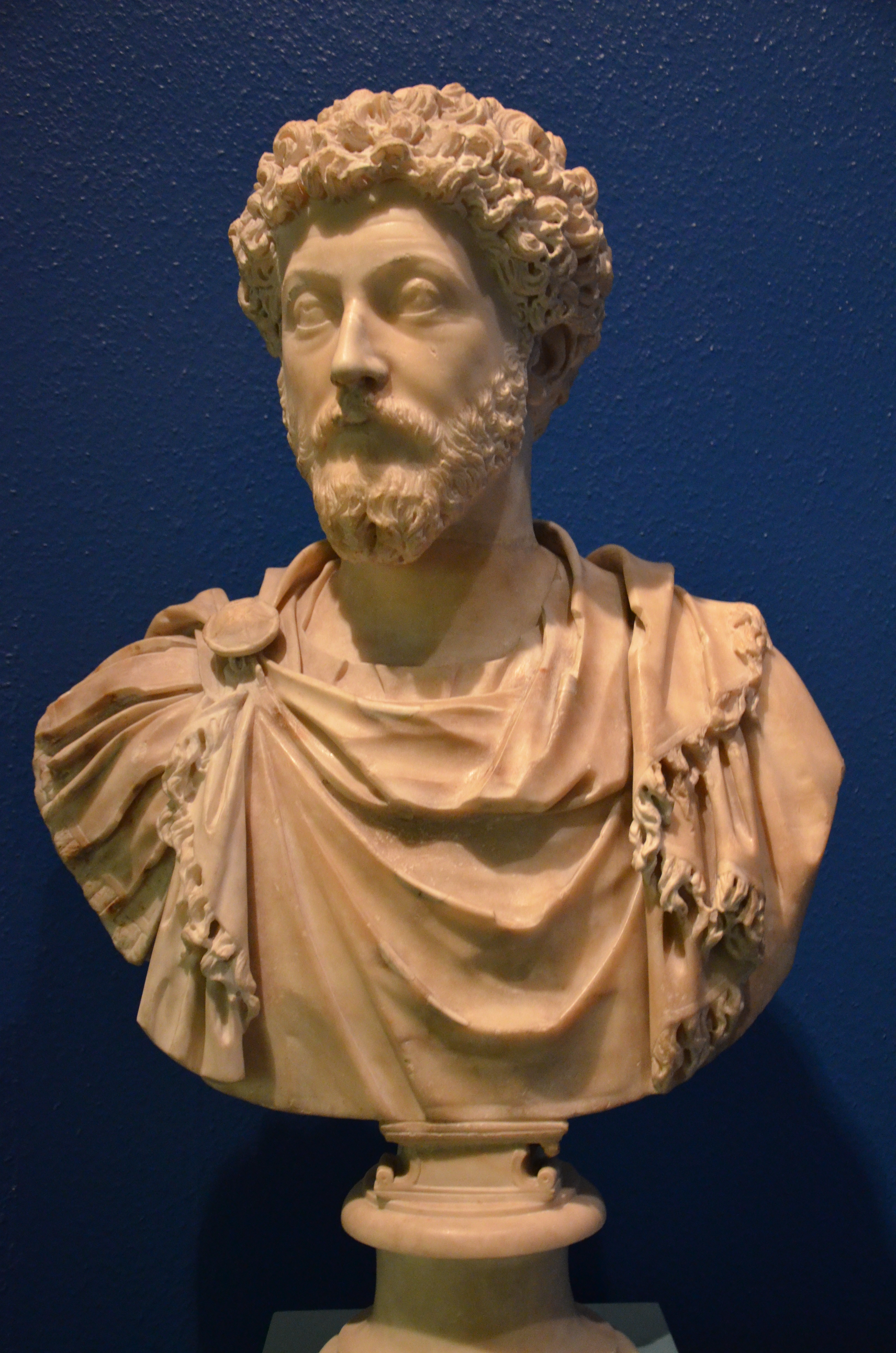 World Museum, Liverpool